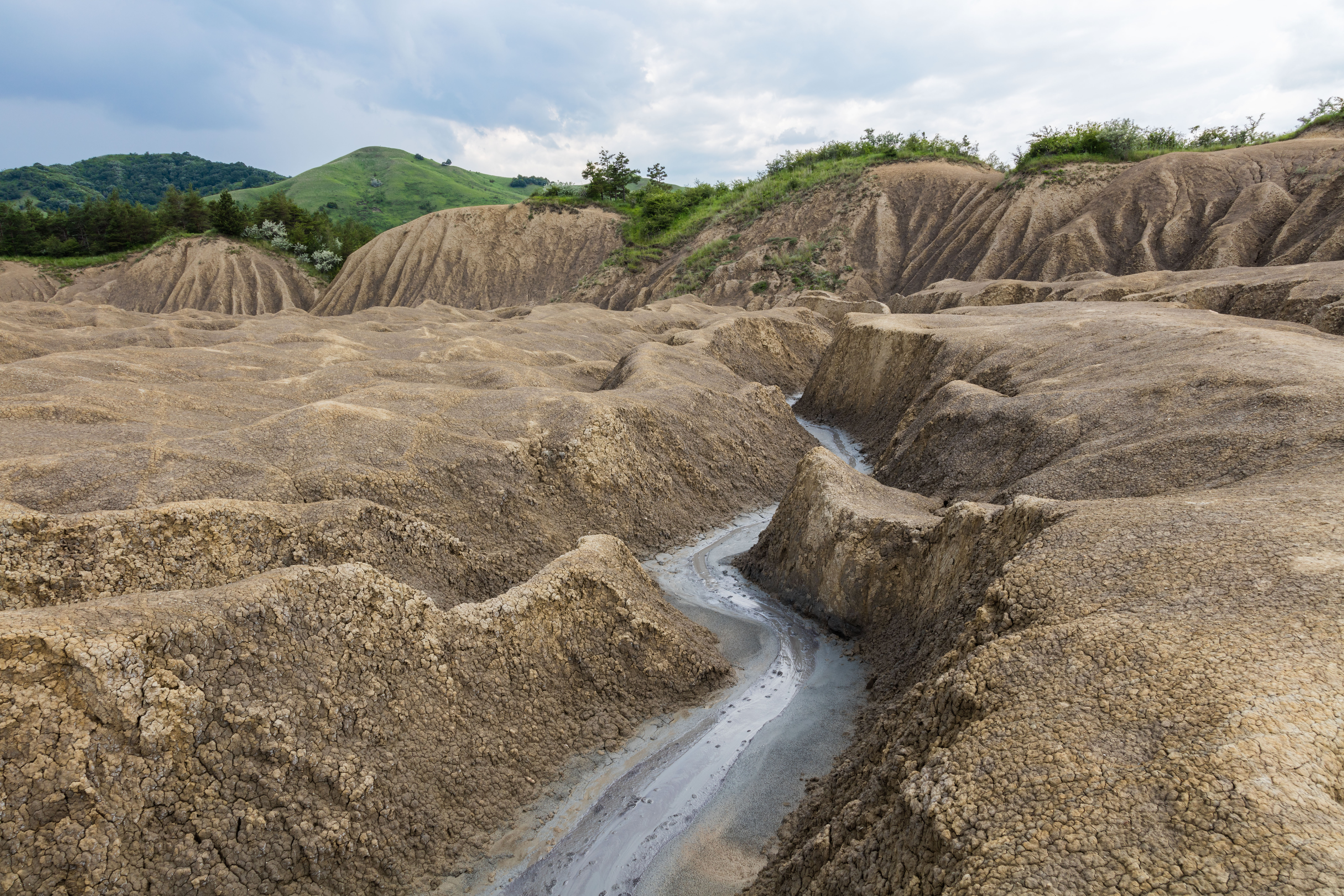 The Berca Mud Volcanoes are a geological and botanical reservation located close to Berca in Buzău County, Romania. The phenomenon is caused due to gases that erupt from 3,000 metres (9,800 ft) deep towards the surface, through the underground layers of clay and water, they push up underground salty water and mud, so that they overflow through the mouths of the volcanoes, while the gas emerges as bubbles. When the mud arrives at the surface, it dries off, changing the landscape in ways like you can see here.